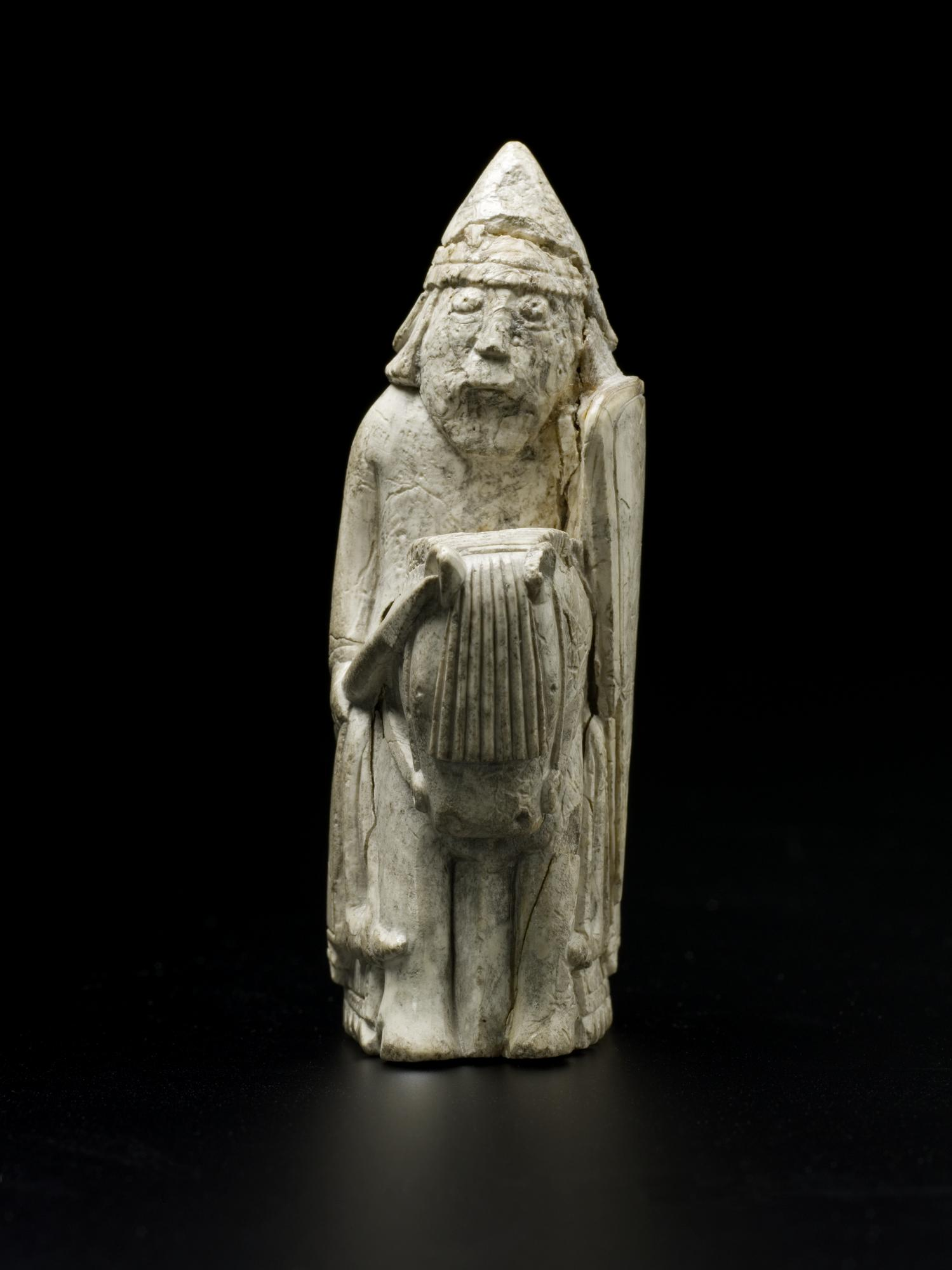 This file was uploaded as part of a partnership between Wikimedia UK and the National Museum of Scotland. This tag does not indicate the copyright status of the attached work. A normal copyright tag is still required. See Commons:Licensing. This work is free and may be used by anyone for any purpose. If you wish to use this content, you do not need to request permission as long as you follow any licensing requirements mentioned on this page.